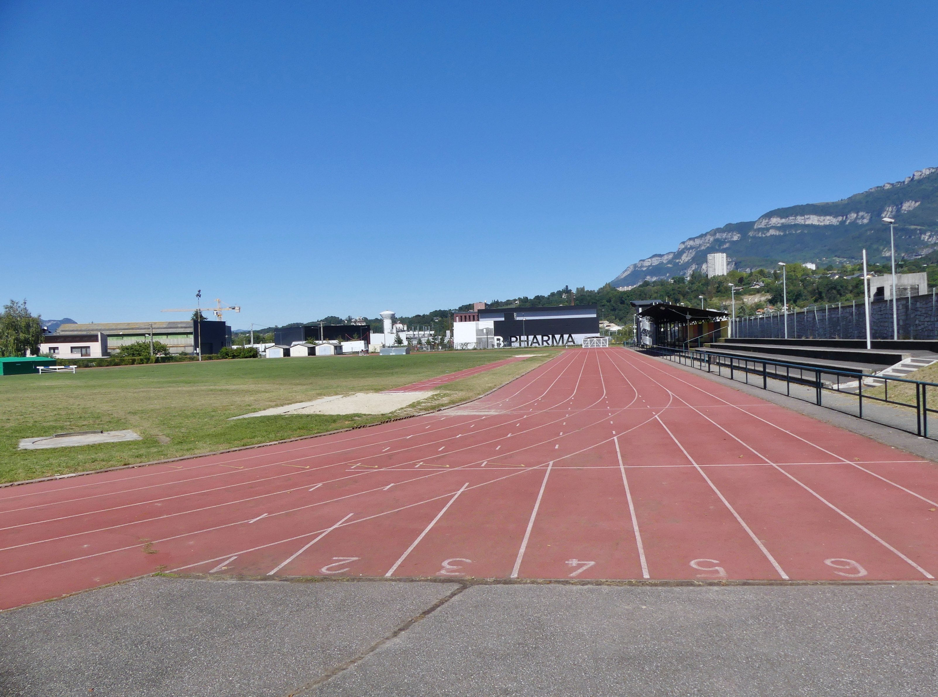 Sight of the Mas-Barral outdoor stadium, at the north of Chambéry, Savoie, France.